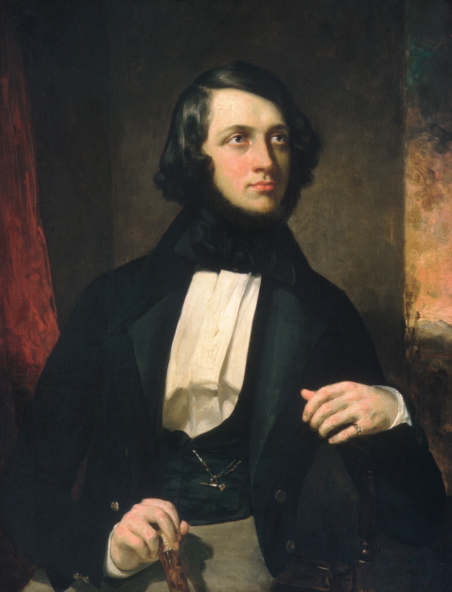 Alexander Van Rensselaer Artist:George P. A. Healy (1813–1894) Date:1837 Medium:Oil on canvas Dimensions:36 1/4 x 28 3/8 in. (91.7 x 71.5 cm) Classification:Paintings Credit Line:Bequest of Mabel Van Rensselaer Johnson, 1959